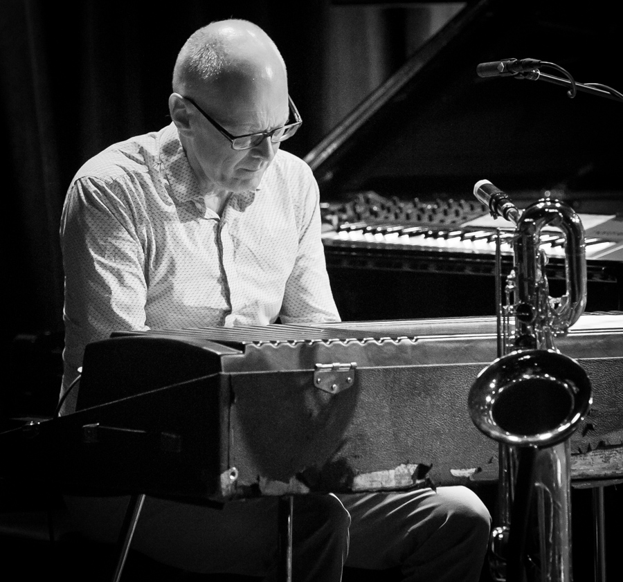 Rune Klakegg performs with Cutting Edge at the stage of Nasjonal Jazzscene Victoria. The concert was part of the Oslo Jazz Festival in Norway and took place on 17. August 2016. Lineup: Rune Klakegg (keyboard) Morten Halle (tenor saxophone) Knut Værnes (guitar) Edvard Askeland (bass guitar) Frank Jakobsen (drums) Stein Inge Brækhus (drums)